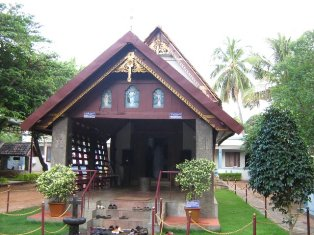 Thiruvithamcode Arappally (Royal Church)